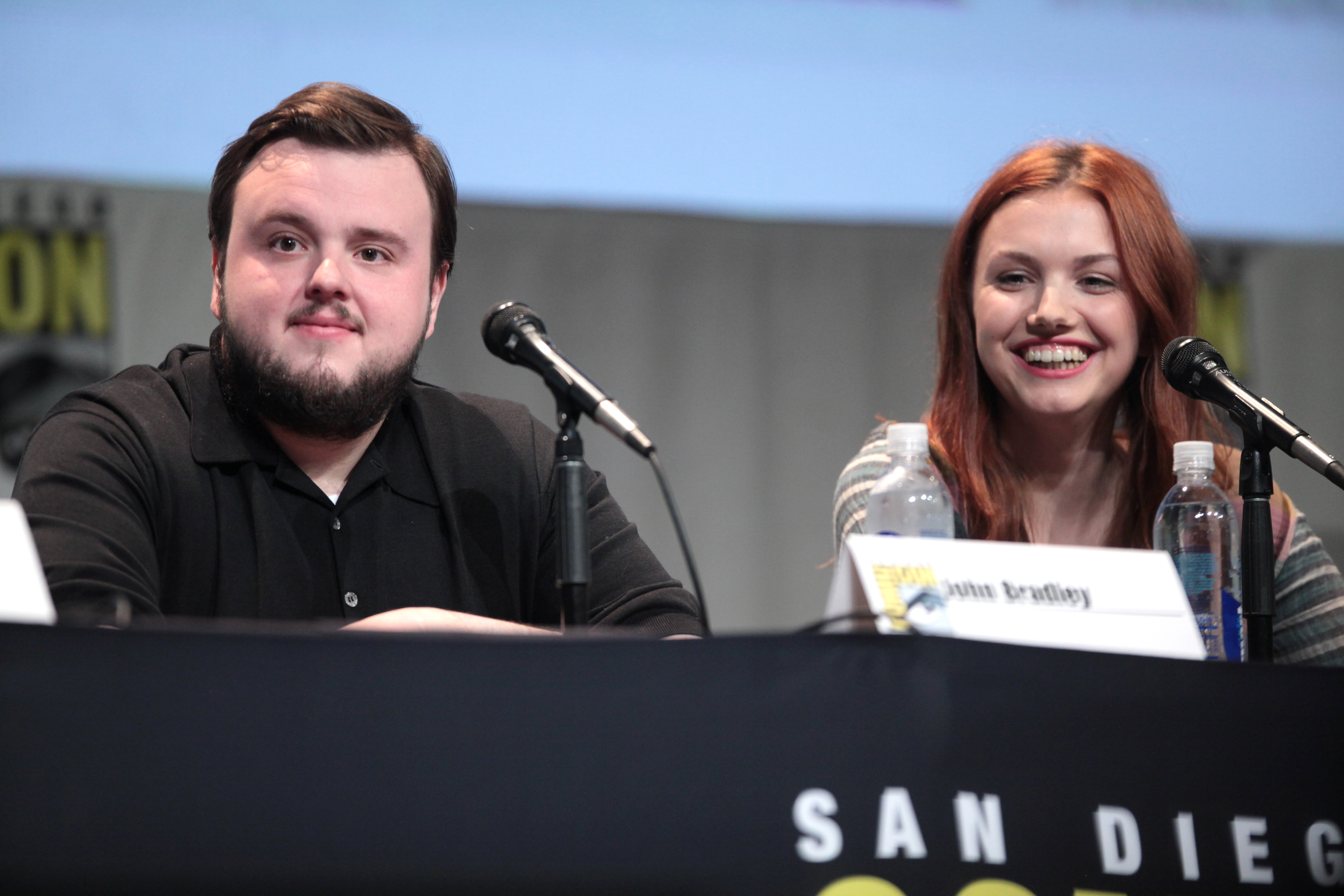 John Bradley and Hannah Murray speaking at the 2015 San Diego Comic Con International, for "Game of Thrones", at the San Diego Convention Center in San Diego, California.